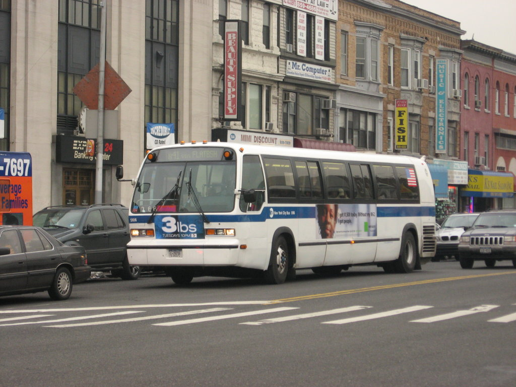 NYC Transit #5106 operates on the B41.